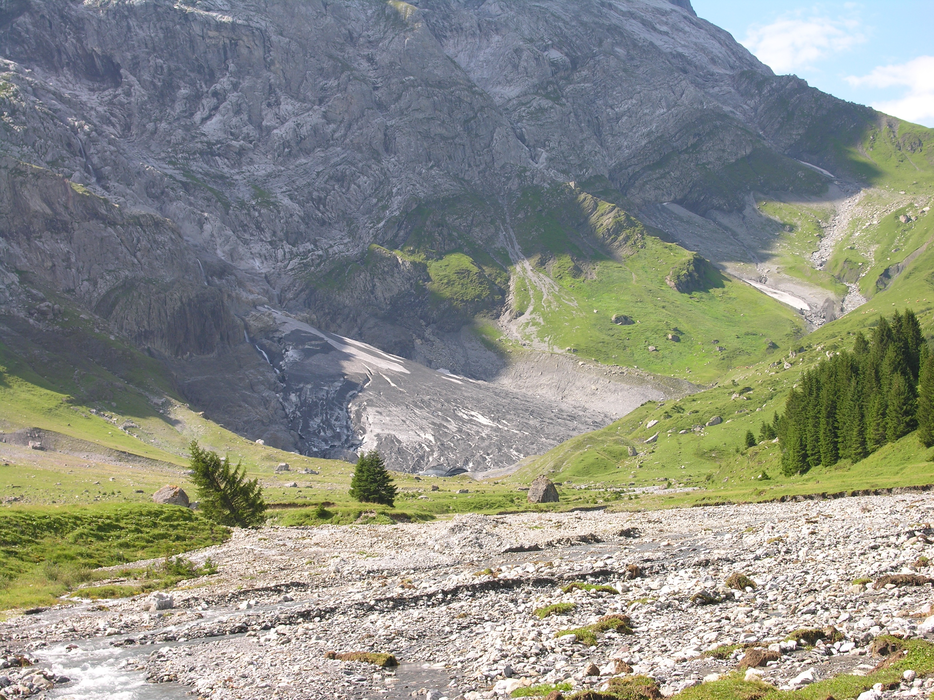 The beginning of the Reichenbach river near Grosse Scheidegg. The Reichenbach waterfall, the place of the fictitious fight between Holmes and Moriarty, is below.